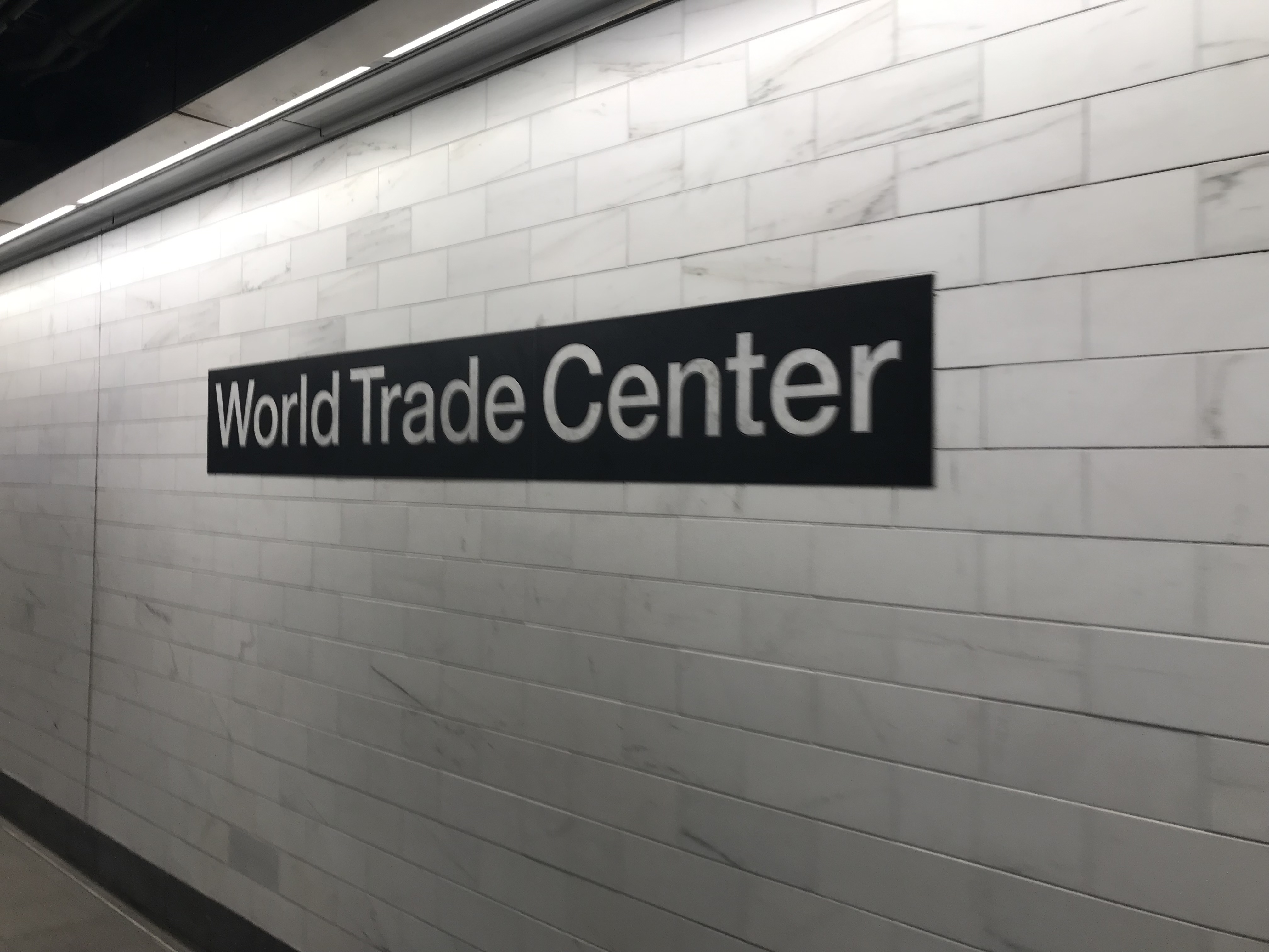 It’s a picture of the station